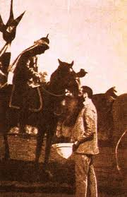 Theodor Herzl met the German Emperor Wilhelm II at the main entrance of Mikveh Israel during Herzl's sole visit to Palestine.